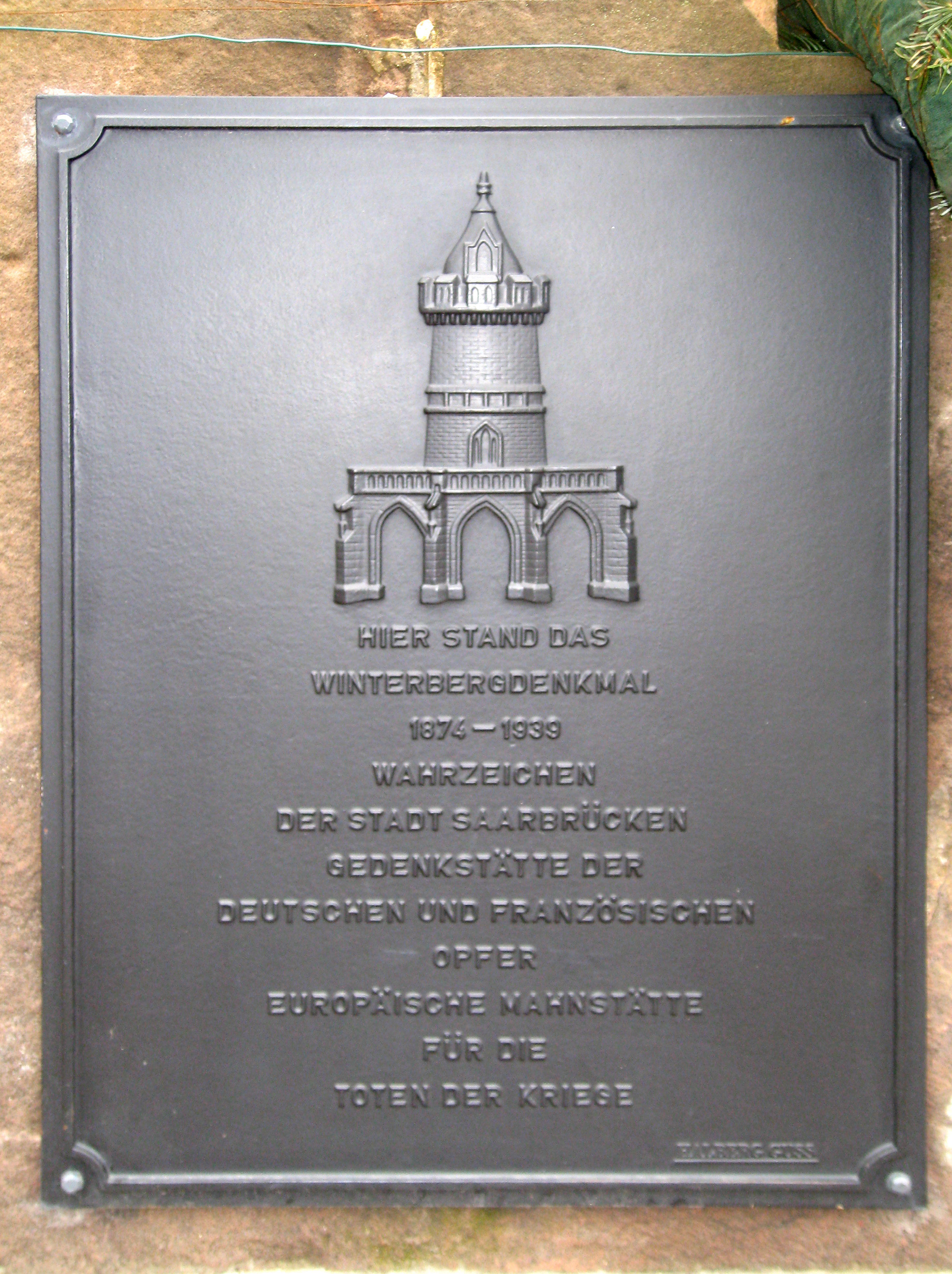 Memorial plate on Winterberg in Saarbruecken